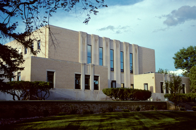 Front of the Stark County Courthouse, located along Third Street North in Dickinson, North Dakota, United States. Built in 1936, it is listed on the National Register of Historic Places.